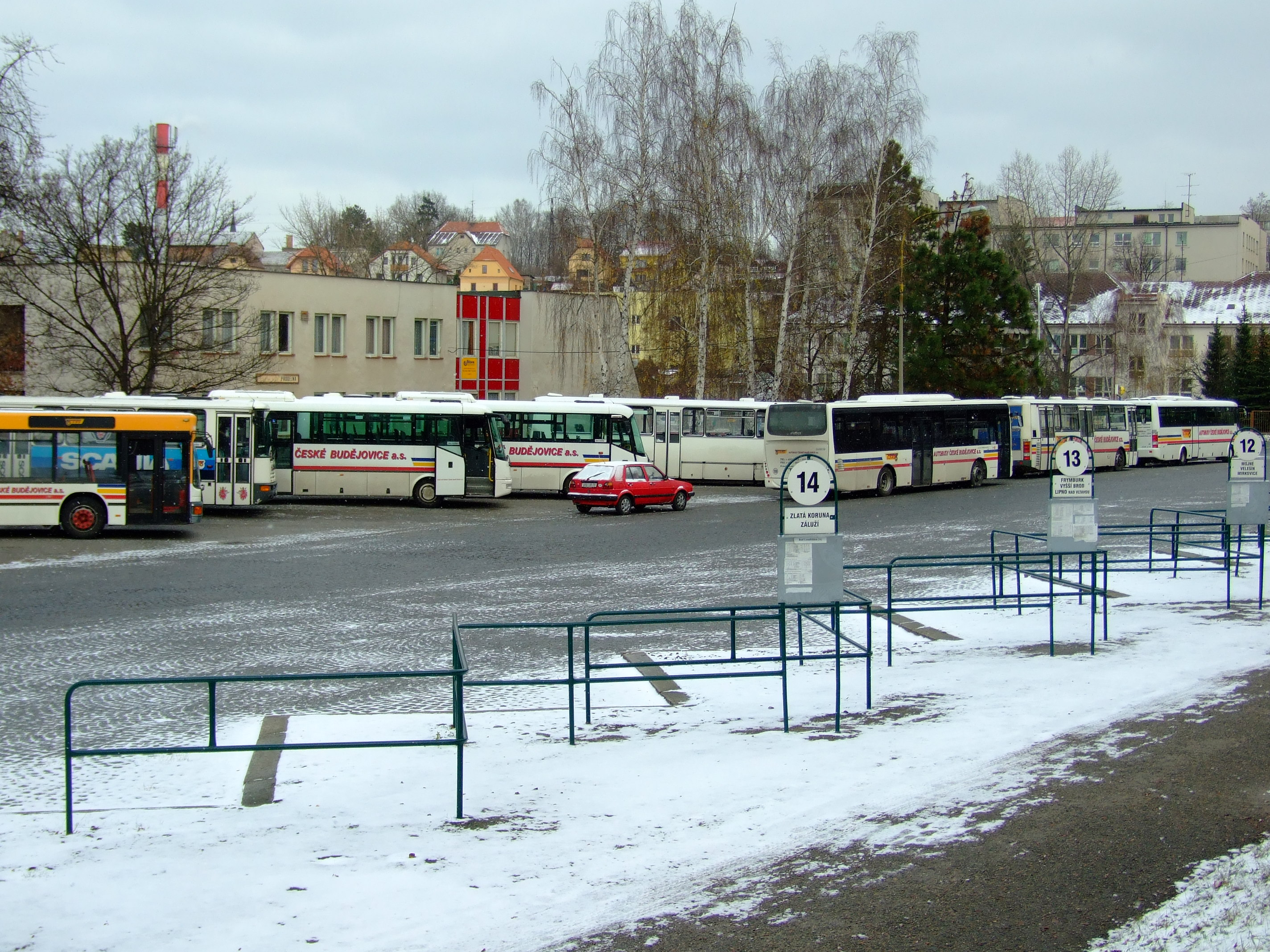 Bus terminal in Český Krumlov, South Bohemian region, Czech Republichelp